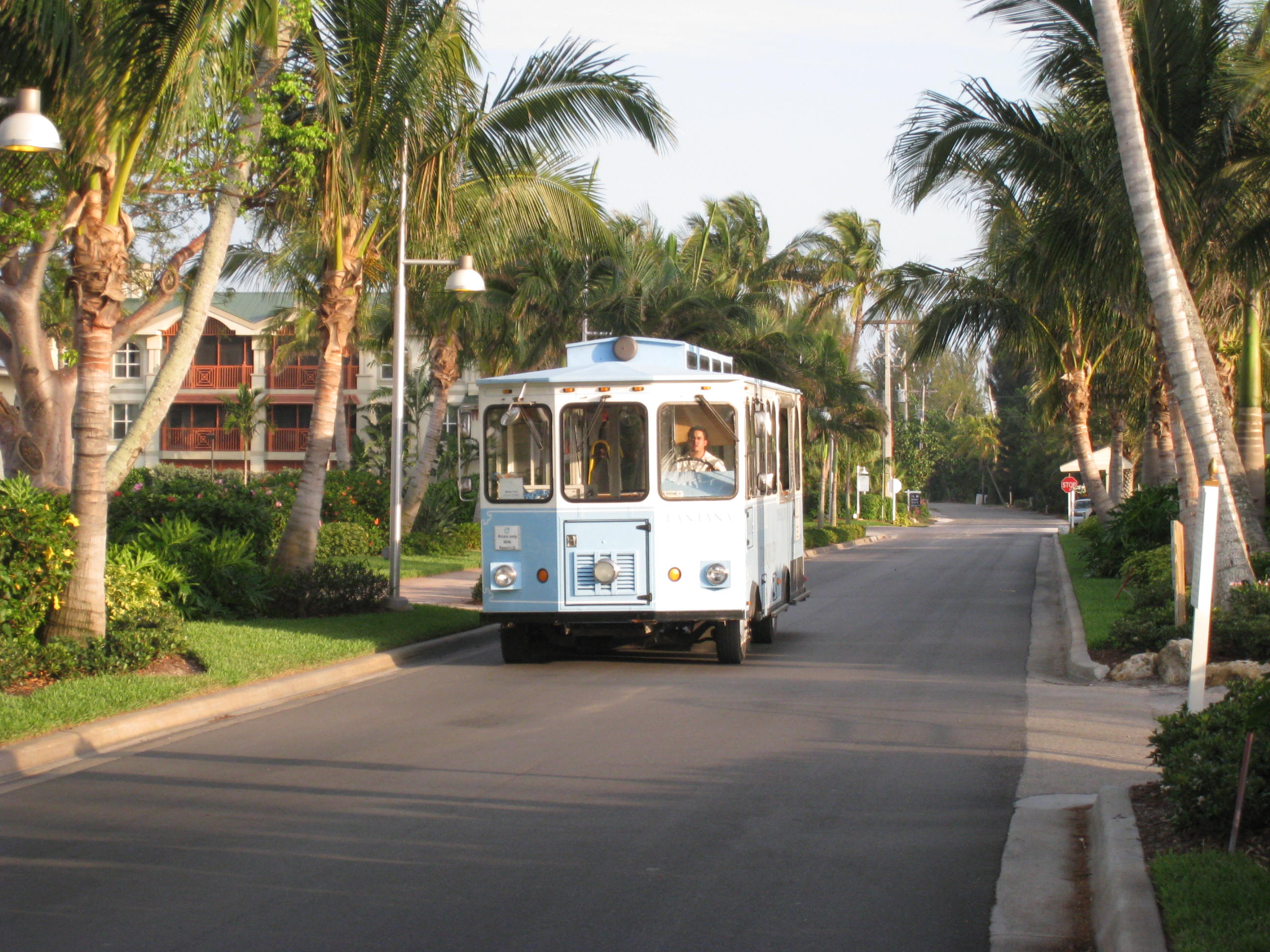 Bus, South Seas Island Resort, Captiva Island, Florida